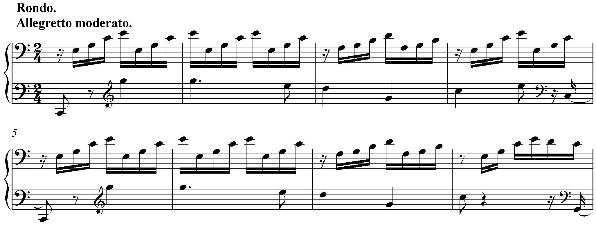 First eight bars of the 3rd movement of Ludwig van Beethoven's Piano Sonata No. 21 in C major, Op. 53, the Waldstein.